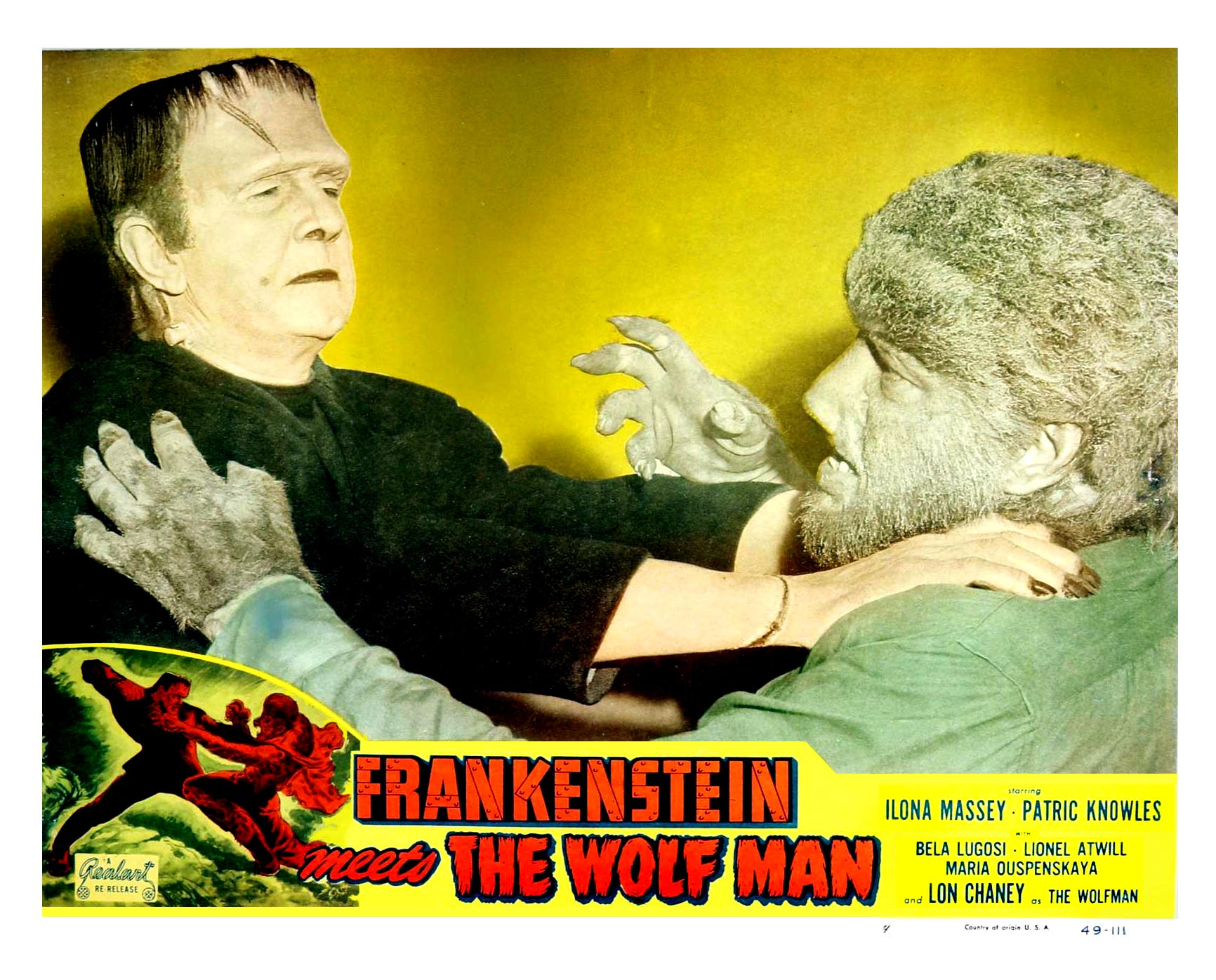 Colored lobby card for Frankenstein Meets the Wolfman (Universal, 1943), featuring Bela Lugosi and Lon Chaney Jr. Image is assumed to be in the public domain as no copyright is in evidence.